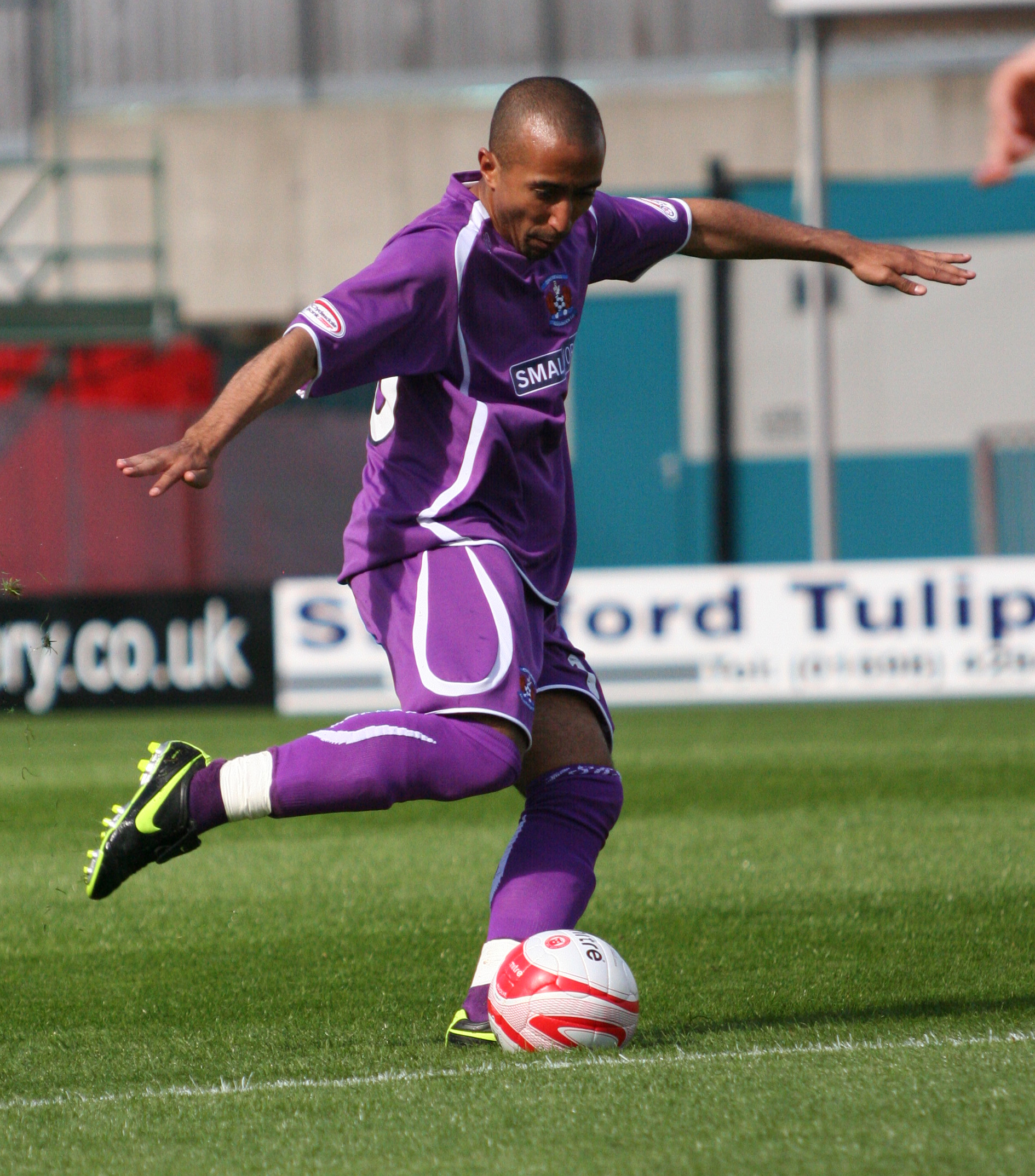 Mehdi Taouil playing for Kilmarnock F.C. in a Scottish Premier League match